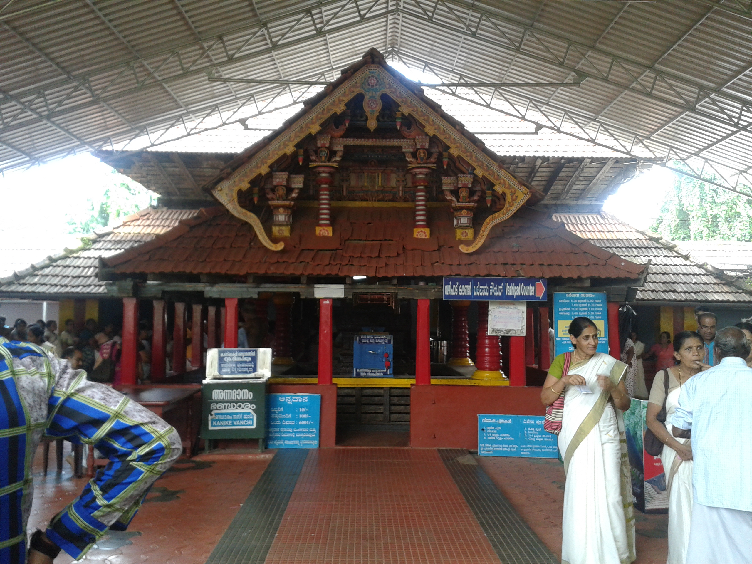 Madayikkavu(Tiruvarkadu Bhagavathy Temple)